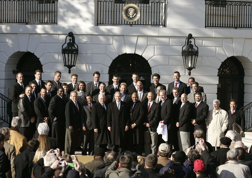 The Boston Red Sox of Major League Baseball (United States) are honored at the White House by President George W. Bush following the side's winning the 2004 World Series.